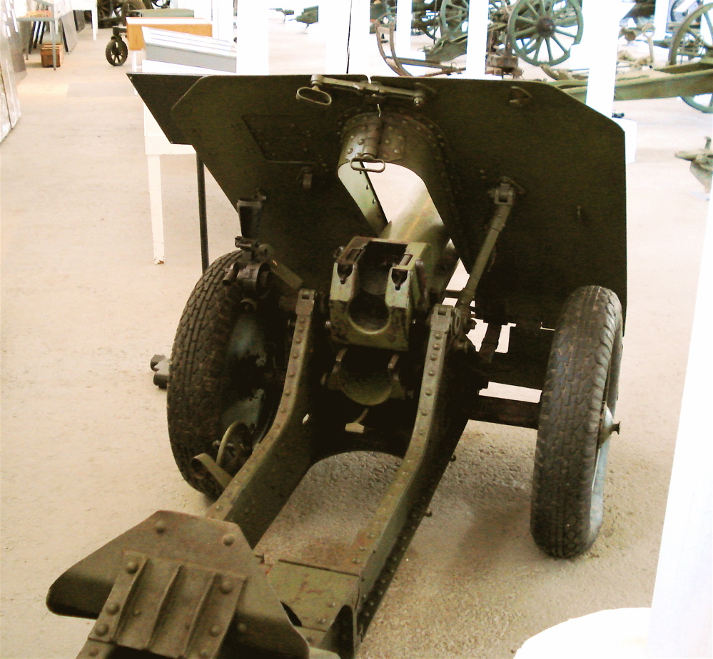 Soviet 76.2 mm mountain gun M1938. This particular gun was produced in the Frunze factory in Leningrad in 1940-1941. Photo taken on June 18, 2006. Source: Photo by me, User:Balcer.